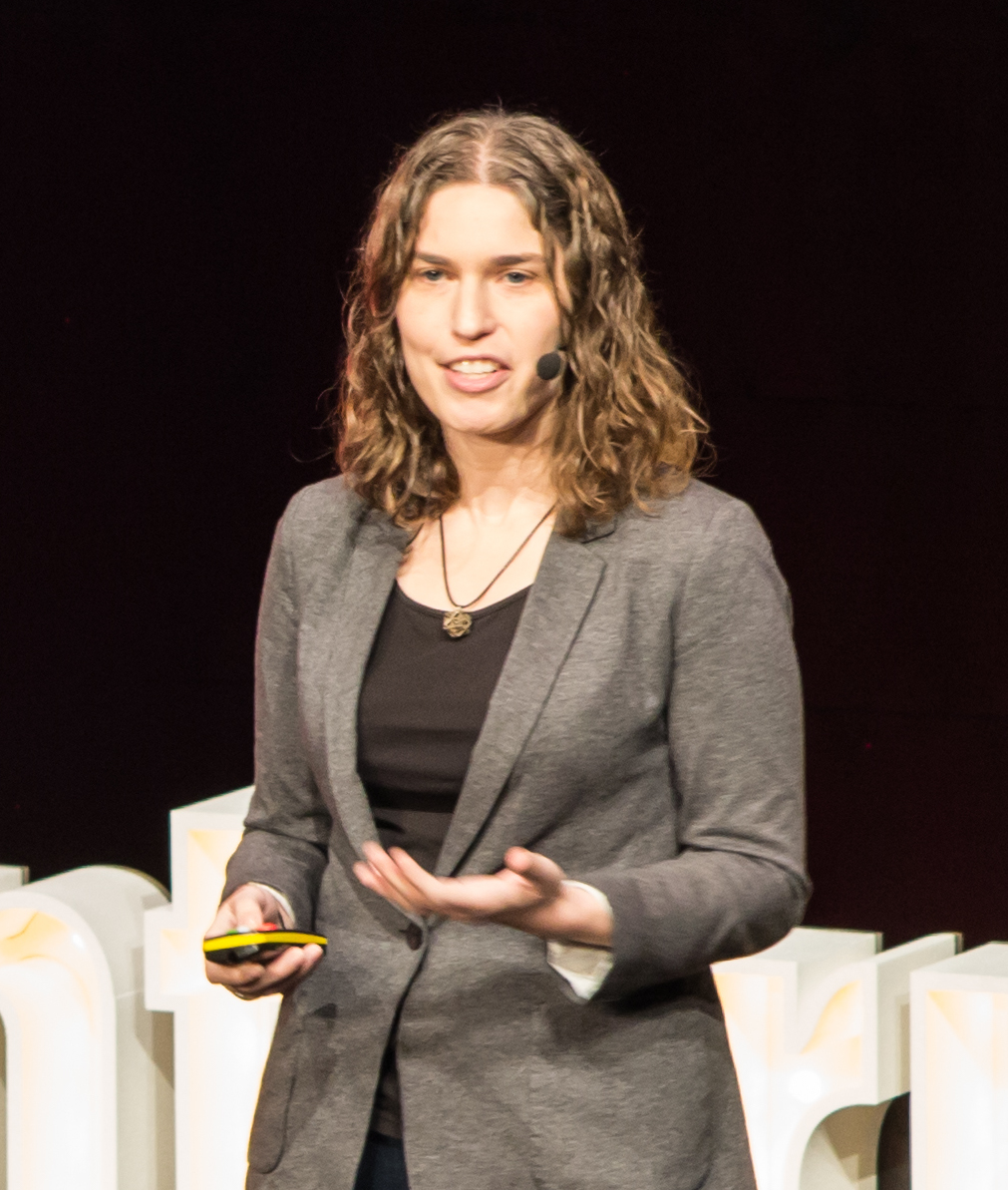 Keynote Hilary Mason, grundare Fast Forward Labs. Foto: Sara Arnald / CC-BY